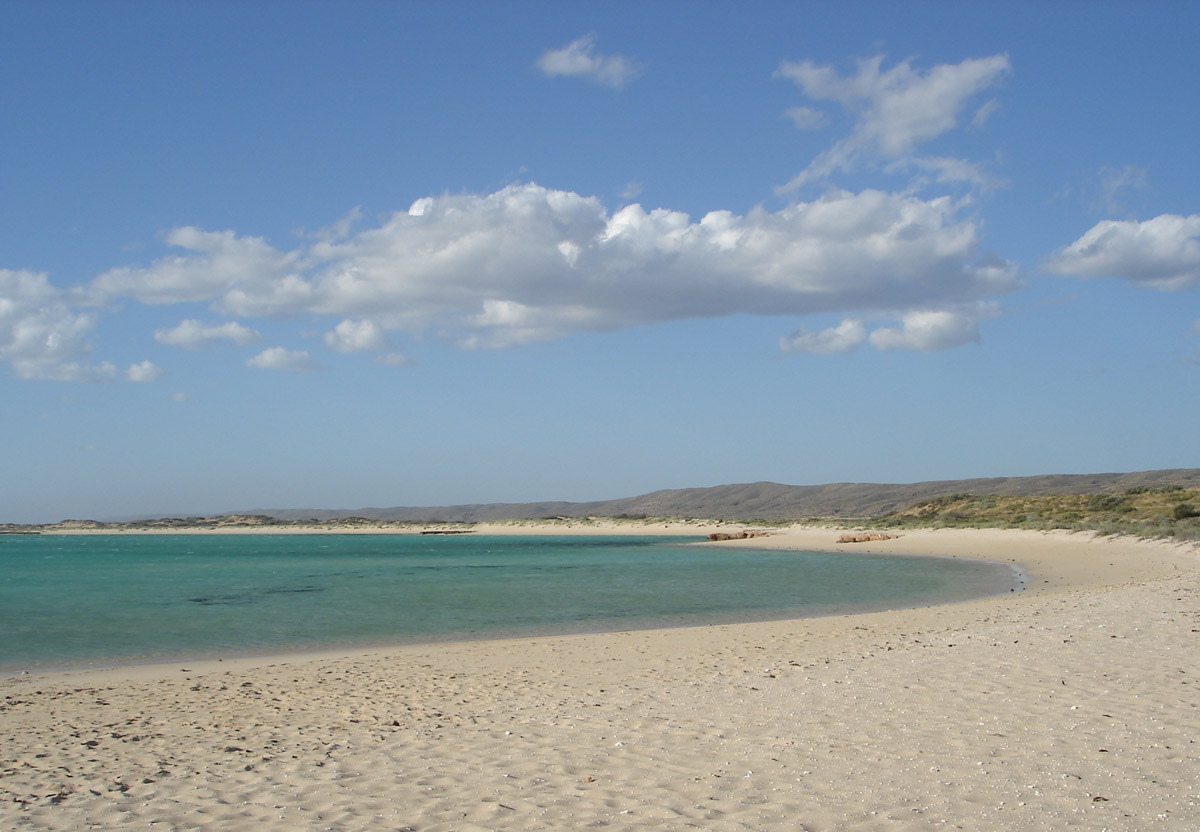 Description: Beach, Exmouth Australia Foto taken by Summi